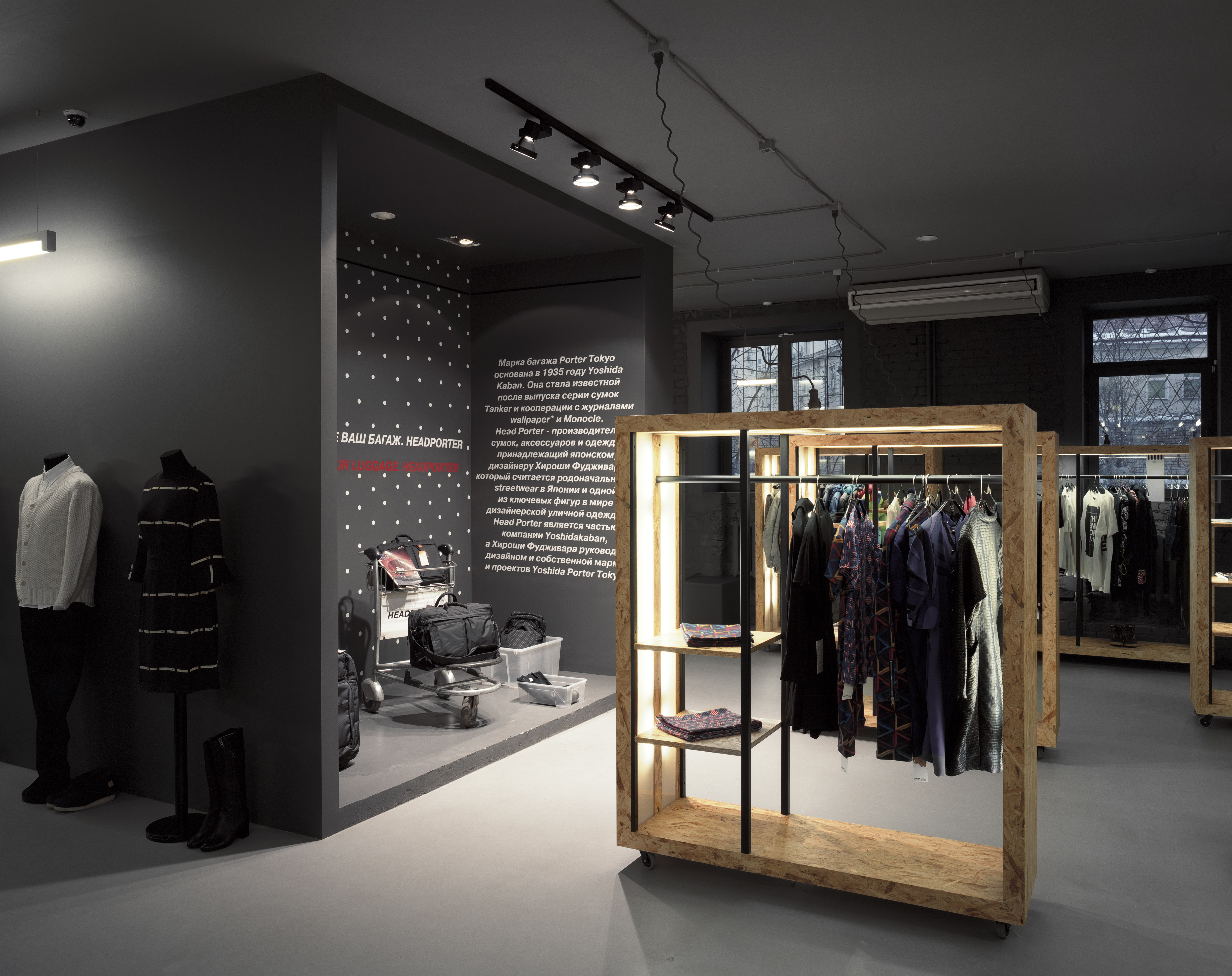 Boris Bernaskoni. Architectural design. Project.